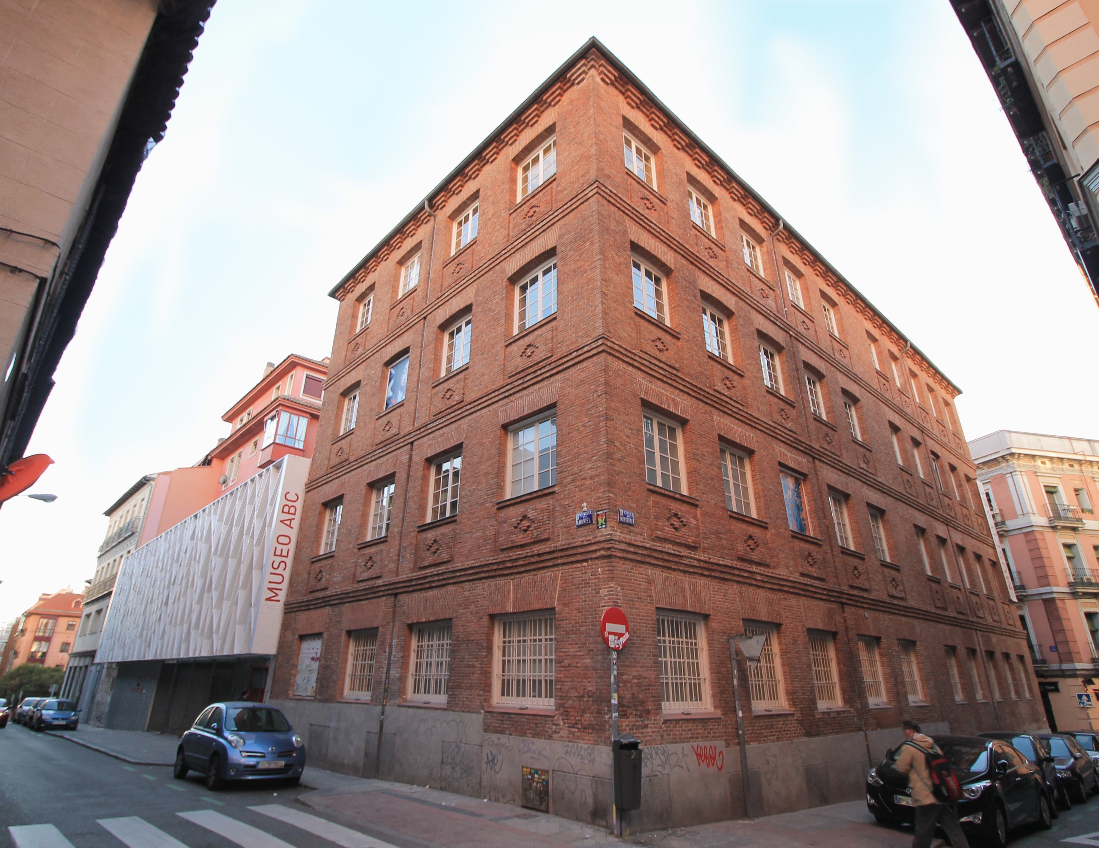 Façade of Museo ABC in Madrid (Spain).